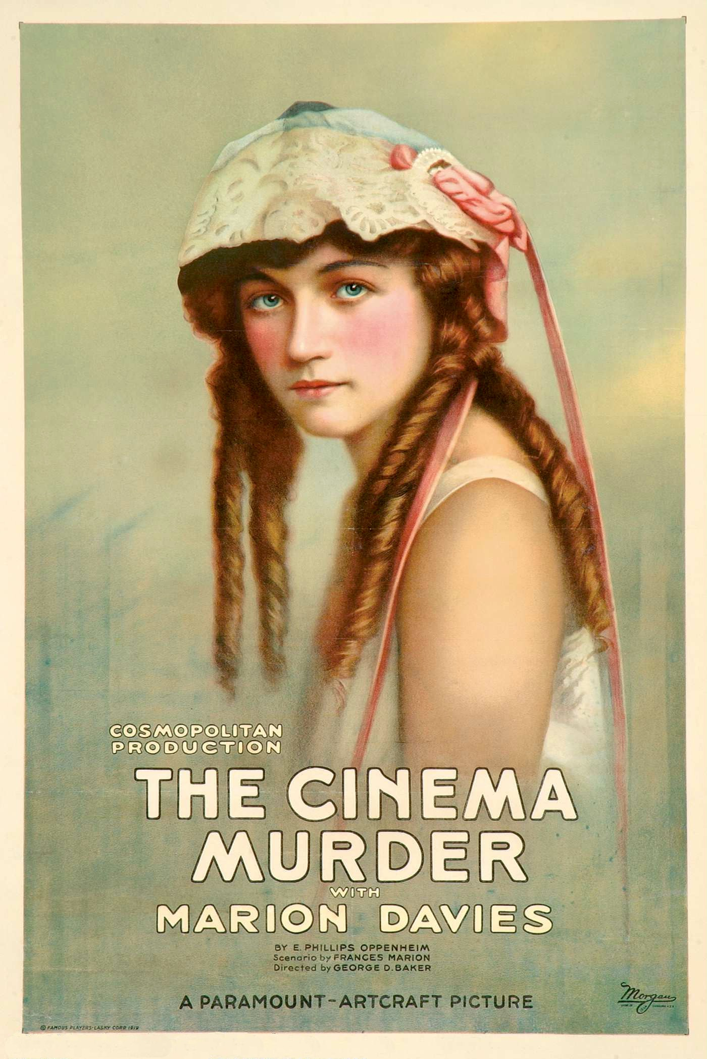 Movie poster for the American film The Cinema Murder (1919).